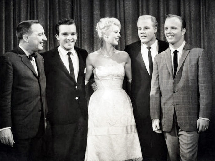 Photo from the television program I've Got a Secret. From left: Garry Moore, Lindsay Crosby, Betsy Palmer, Phillip Crosby, Dennis Crosby. The Crosbys are 3 of Bing Crosby's 4 sons from his first marriage.